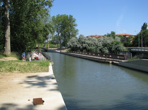 View of the Pont-Canal des Herbettes in Toulouse France.